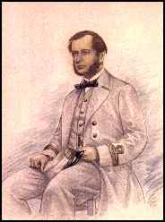 Commander George Truman Morrell, RN, (1830-1912). From a photo in a private collection. c. 1870s.